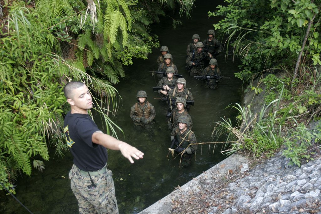 Sgt. Michael J. Maze, a trainer with the Jungle Warfare Training Center, explains an obstacle July 27 to Marines with Marine Air Control Group 18, 1st Marine Aircraft Wing, during the endurance course portion of their five-day Jungle Skills Course.